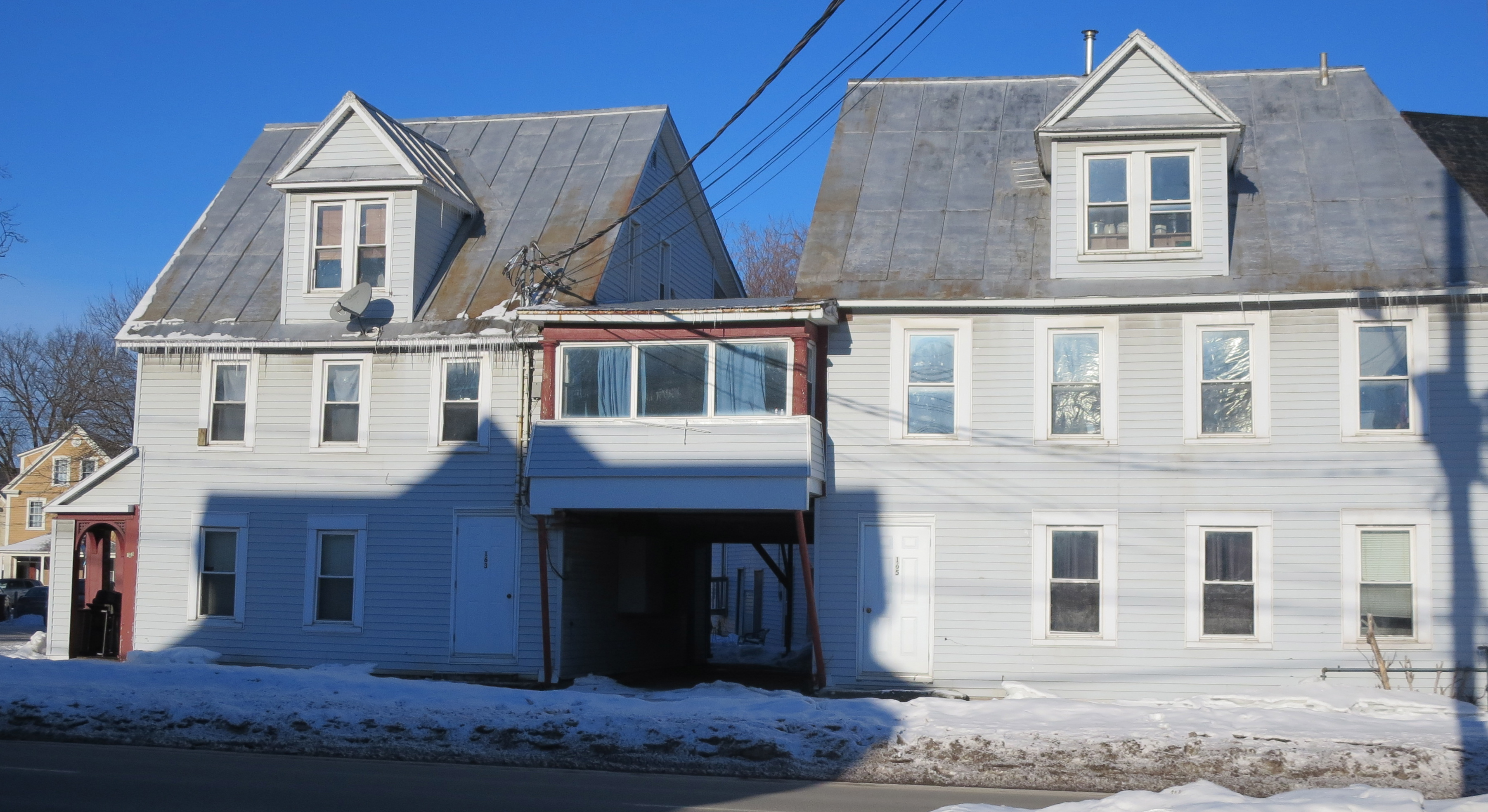 163 and 165 Brunswick Street, Fredericton, New Brunswick, Canada, known as Ashburnham House, the home of the 6th Earl of Ashburnham between 1913 and 1924